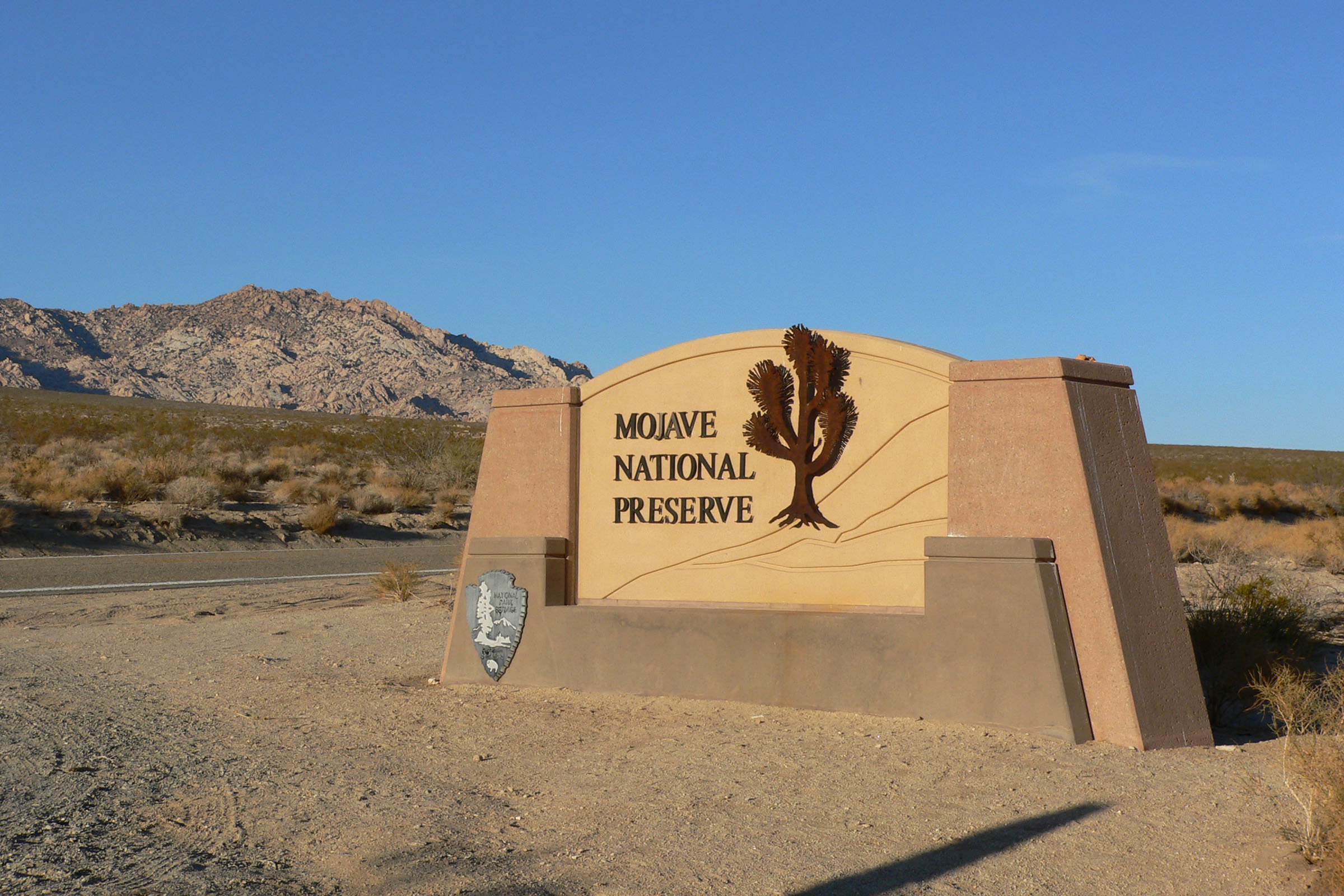 Park sign for Mojave National Preserve — on Kelbaker Road just north of Interstate 40, southern California